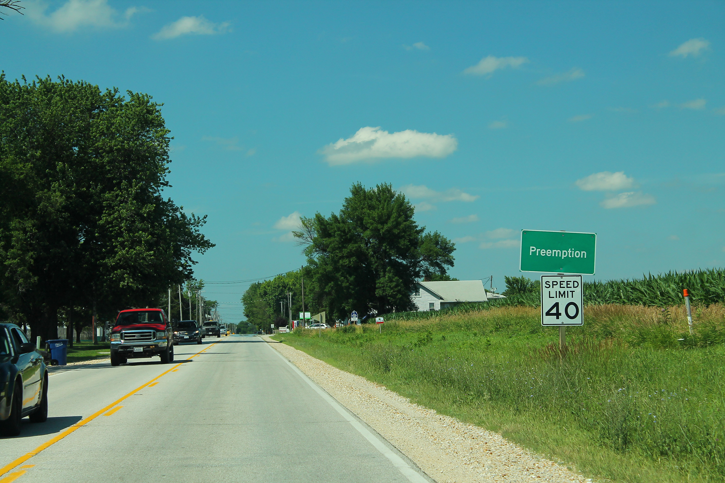 Entering Preemption, Illinois on southbound U.S. Route 67.